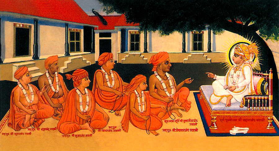 Swaminarayan and paramhanso